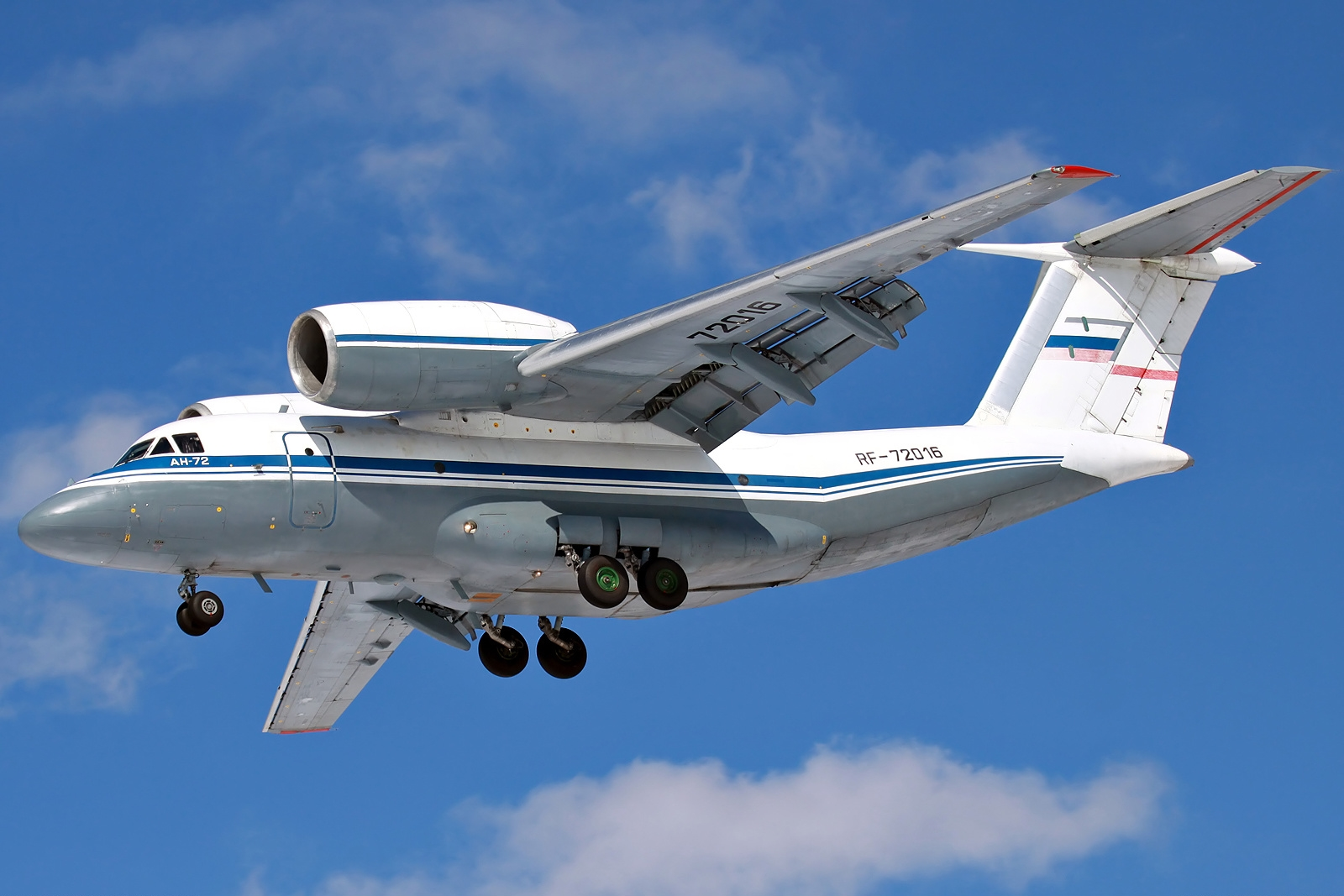 Antonov An-72 (RF-72016) at Moscow - Sheremetyevo (SVO / UUEE).